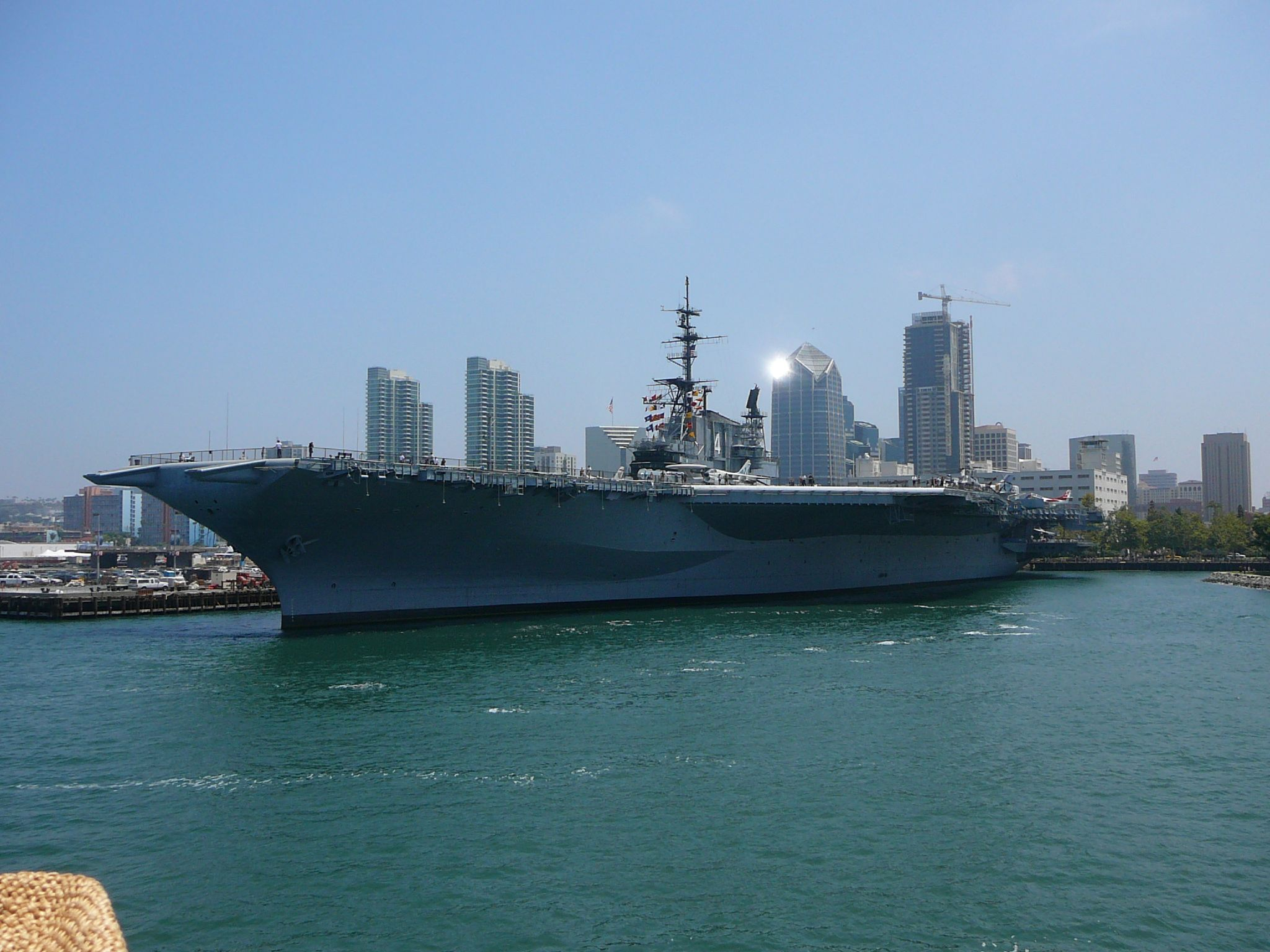 View of the port side of USS Midway (CV-41) museum ship, San Diego, CA.